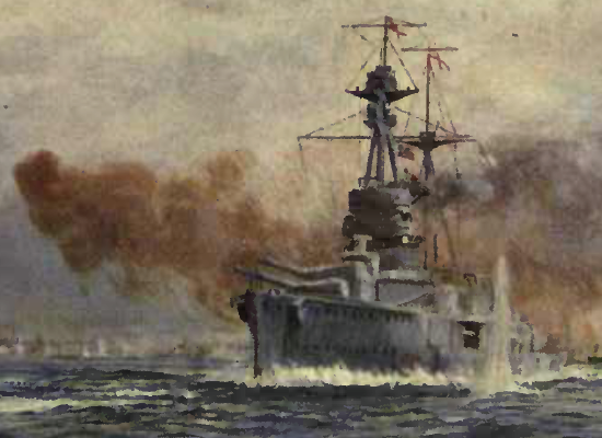 Photographic reproduction of a painting of HMS Royal Oak at the Battle of Jutland. This is a clip from "Royal Oak, Acasta, Benbow, Superb, and Canada in Action" by William Lionel Wyllie.